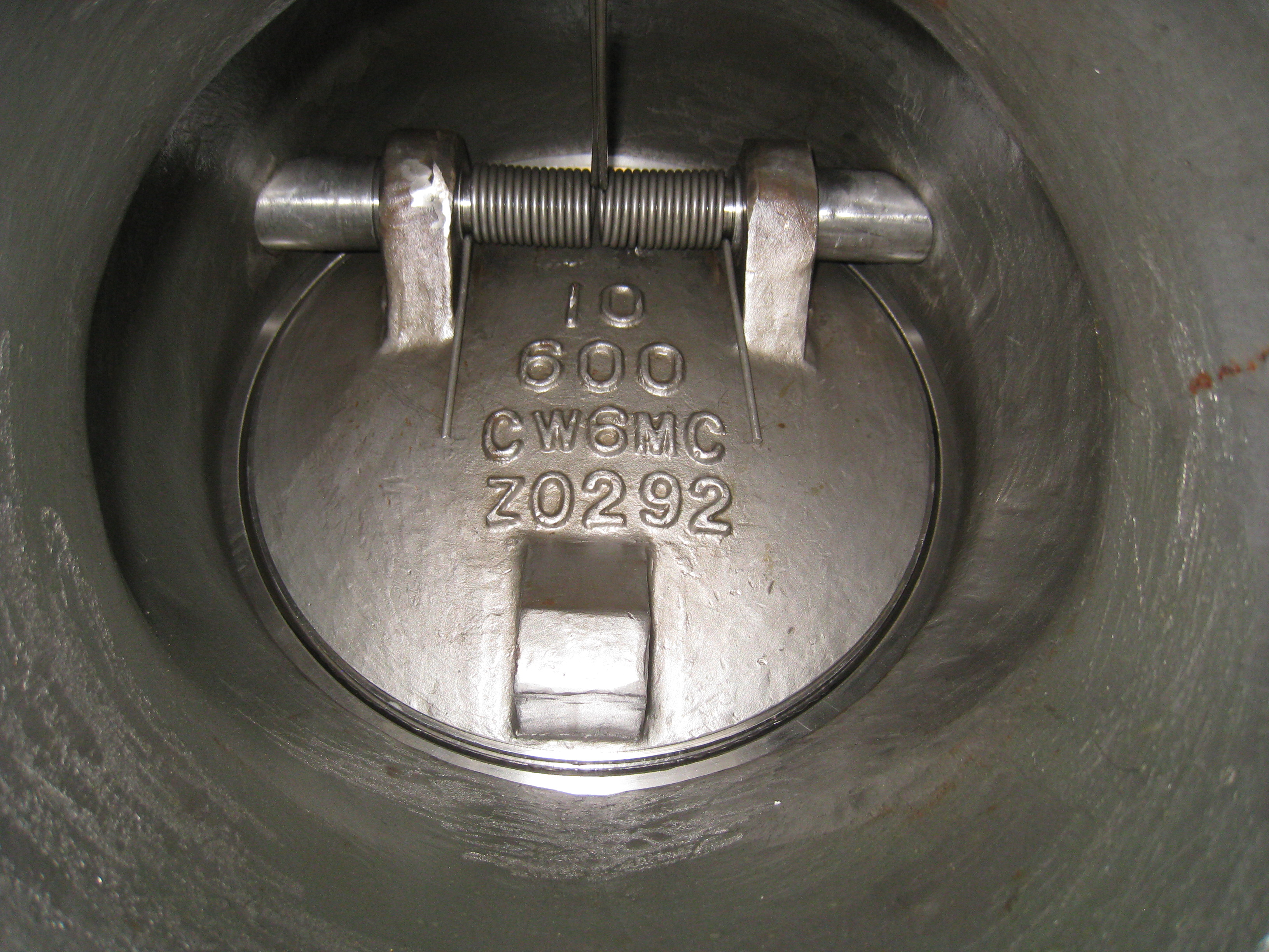 Tilting disc check valve, interior view. Valves and are generally made of plastic or steel, the latter being the most widely used in chemical and petrochemical applications. Steel grades range from the most common type, namely carbon steel, with standard stainless steel being the second most common. Stainless steel alloys, which include nickel or copper are used in applications that require higher corrosion or heat resistance. In such cases, the most commonly used valve configurations -- ball valves, gate valves, check valves, globe valves and butterfly valves -- are often forged or cast as duplex valves, super duplex valves, alloy 20 valves, monel valves, inconel valves, incoloy valves and 254 SMO valves (6Mo valves). Titanium valves are also used in some highly corrosive applications. Titanium is not a stainless steel alloy.